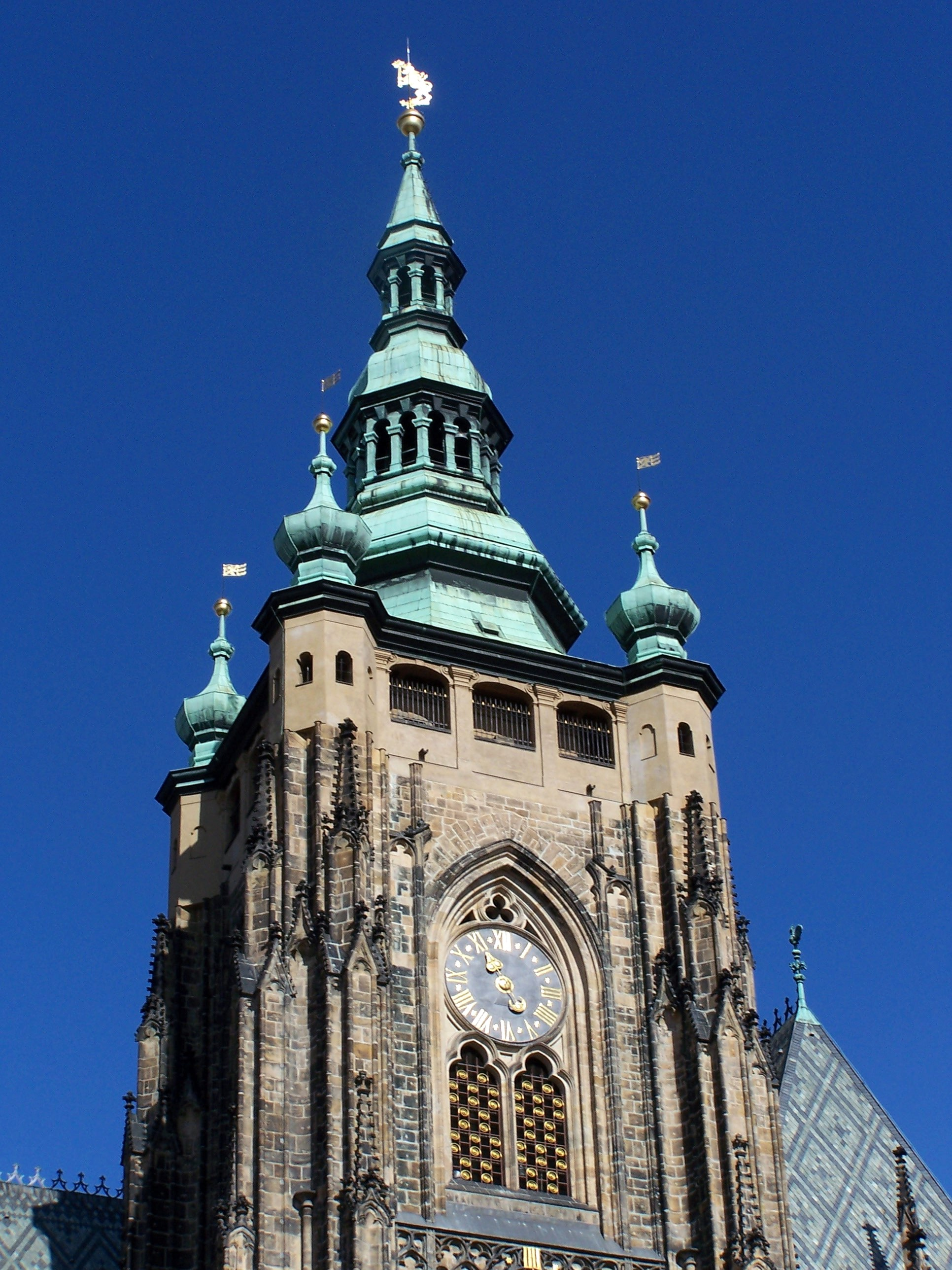 Detail of the historic tower of St. Vitus' Cathedral in Prague.